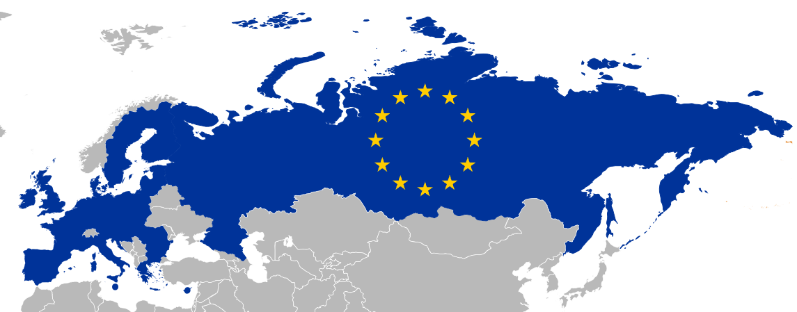 Territory of the EU after possible accession of Russia (EU-28 + Russia). Overseas Territories are not shown